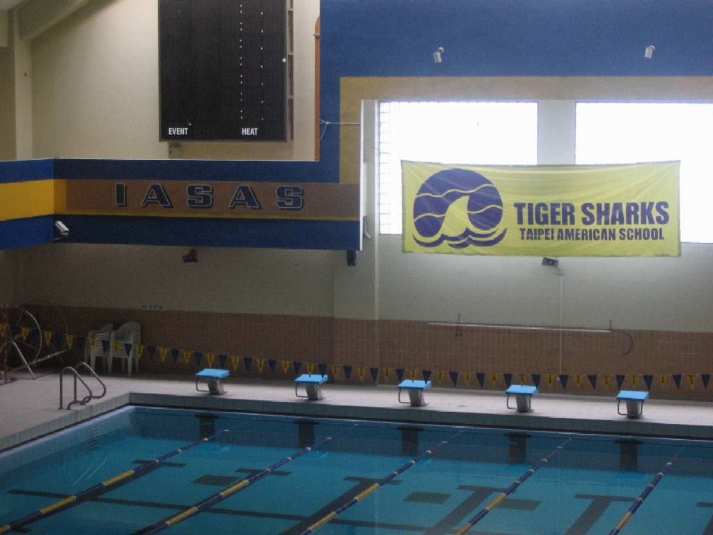 Taipei American School indoor swimming pool. Picture taken Oct. 2005 by Allen Timothy Chang.